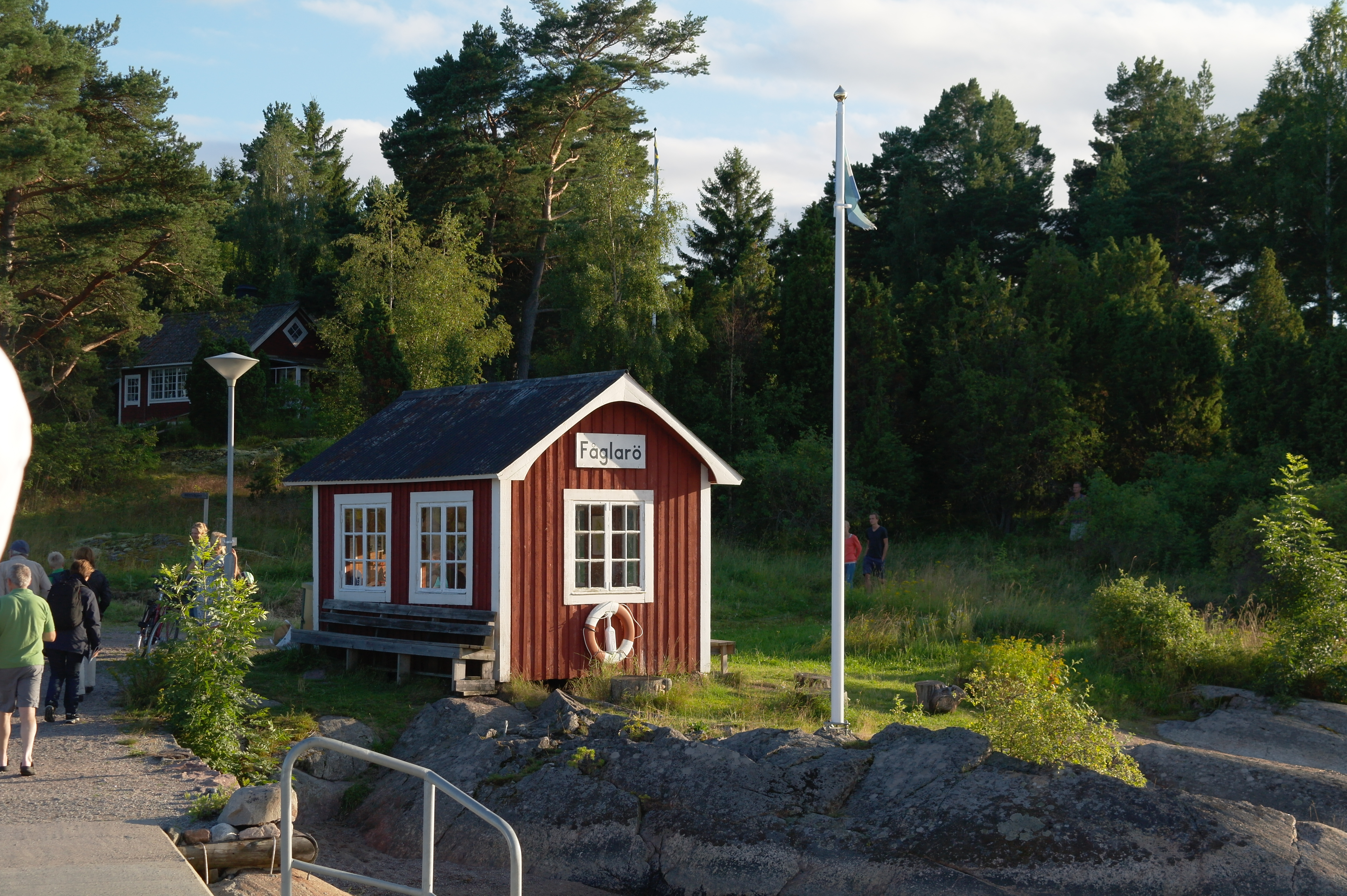 The steam boat dock at Fåglarö - 59.4755N,18.4650E